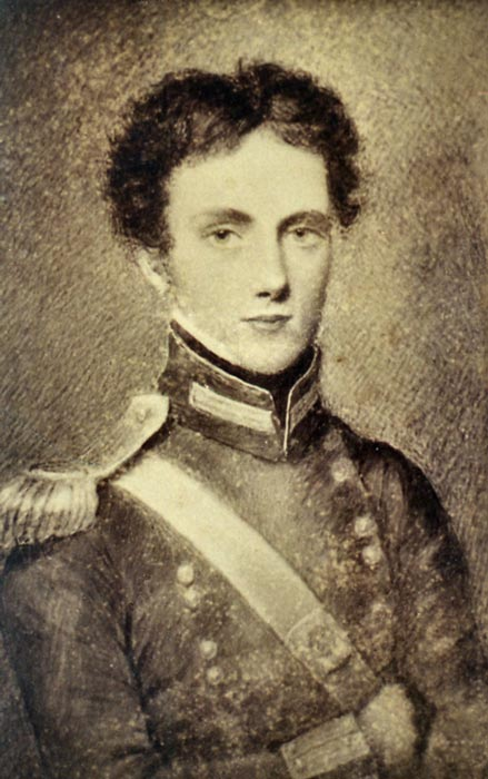 Portrait of James George Deck in military uniform of the 14th Madras Infantry, before resigning his commission in 1835 for religious scruples. He later emigrated to New Zealand and became a Plymouth Brethren evangelist.